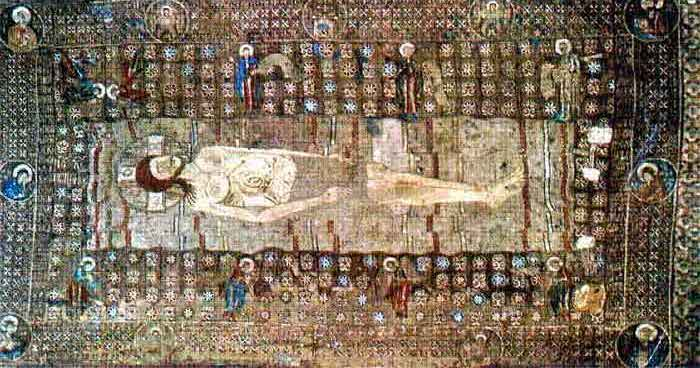 Epitaph of Gllavenica